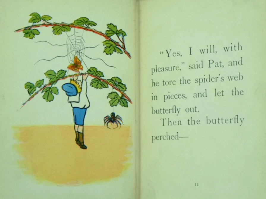 Helen Bannerman, Pat and the spider, the biter bit ː page 11.